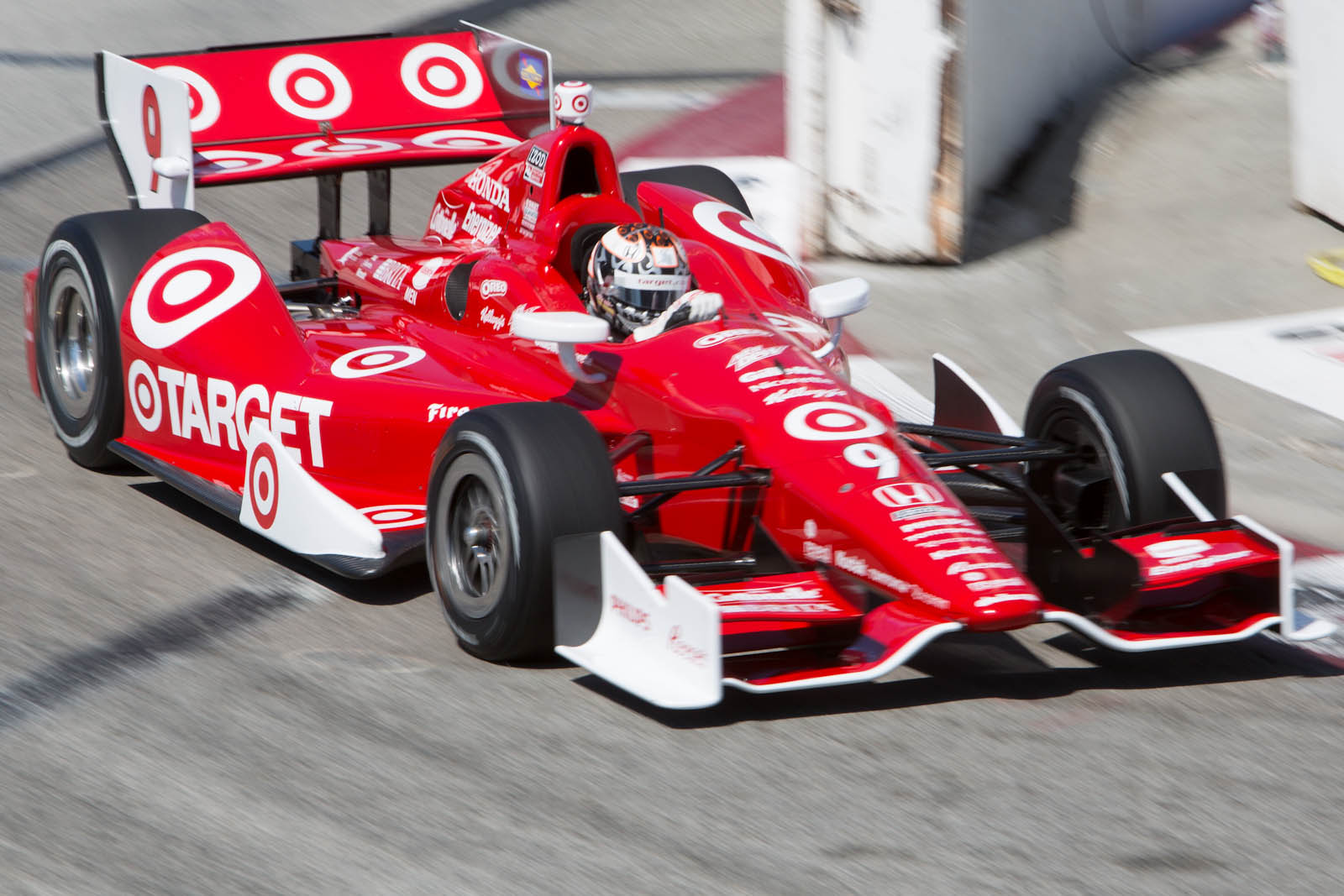 Scott Dixon at the 2012 Toyota Grand Prix of Long Beach.